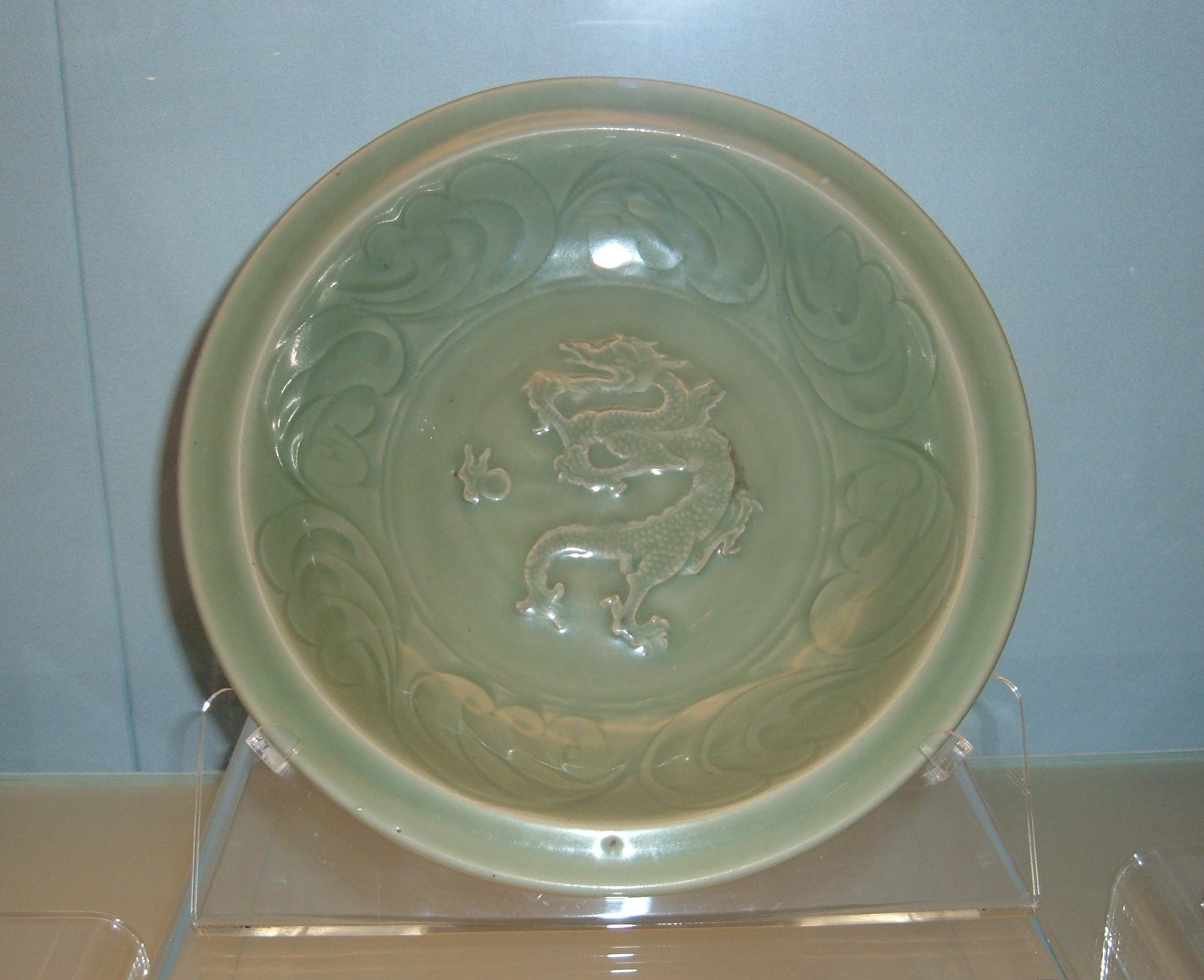 Celadon dish with applied dragon design. Longquan ware, Yuan Dynasty (1271-1368). On display at the Shanghai Museum in Shanghai, PRC.